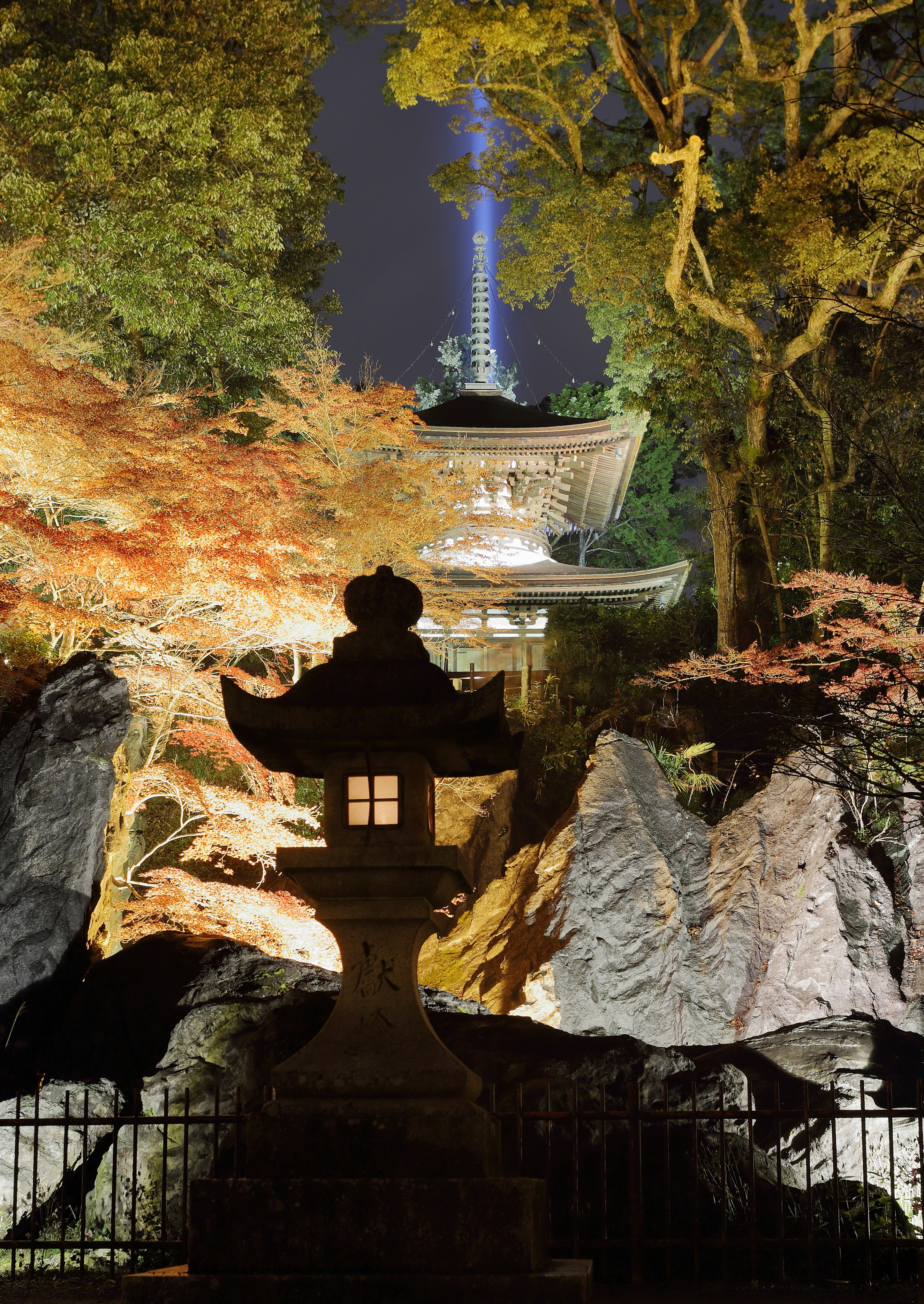 Ishiyama-dera, literally Stony Mountain Temple, Ōtsu, Shiga Prefecture, Japan, at night.